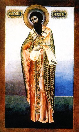 Saint George of Mytilene